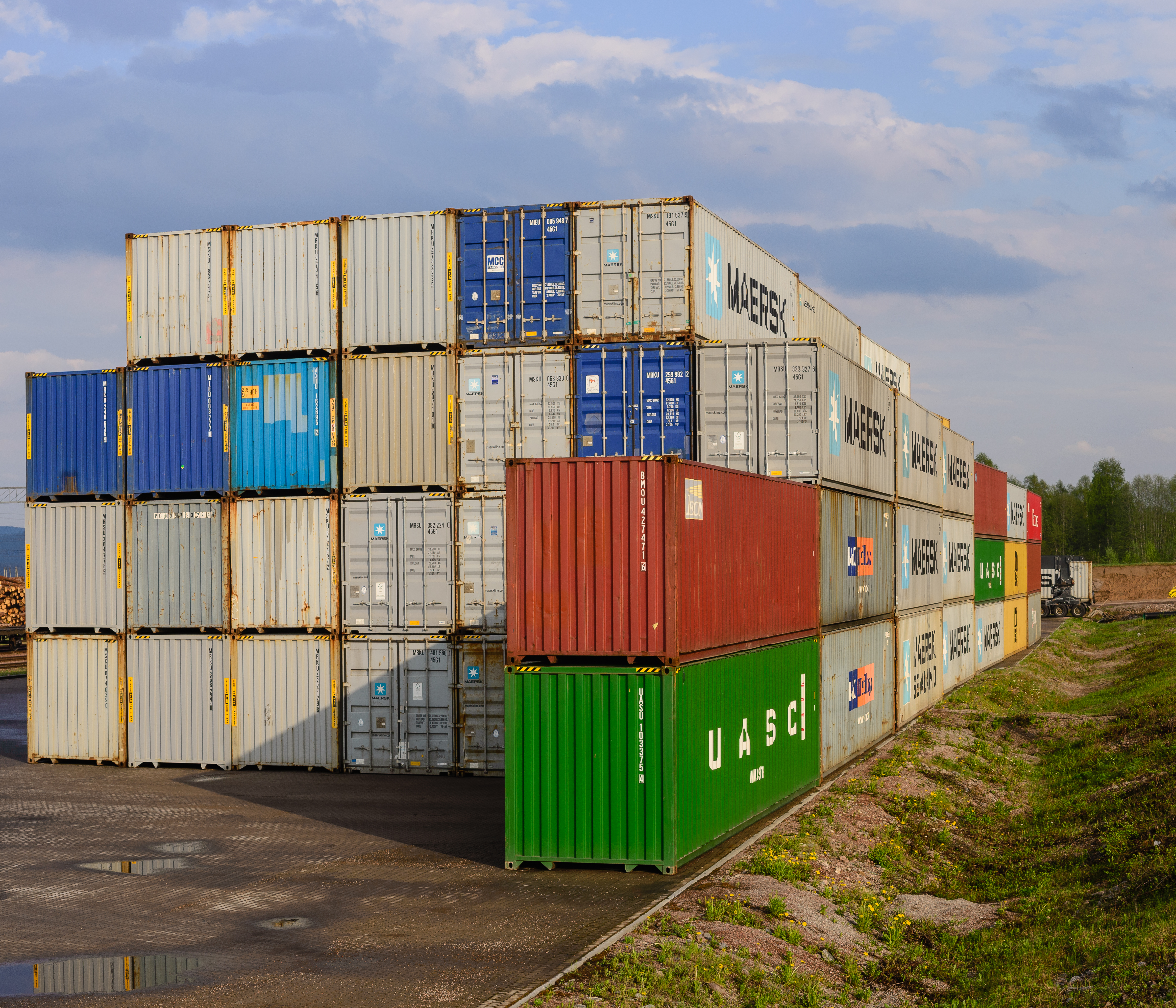 Insjön container terminal in Insjön, Leksand Municipality. The terminal is used by local companies (Bergkvist-Insjön AB, Tomokuhus) for export and by Clas Ohlson for import.